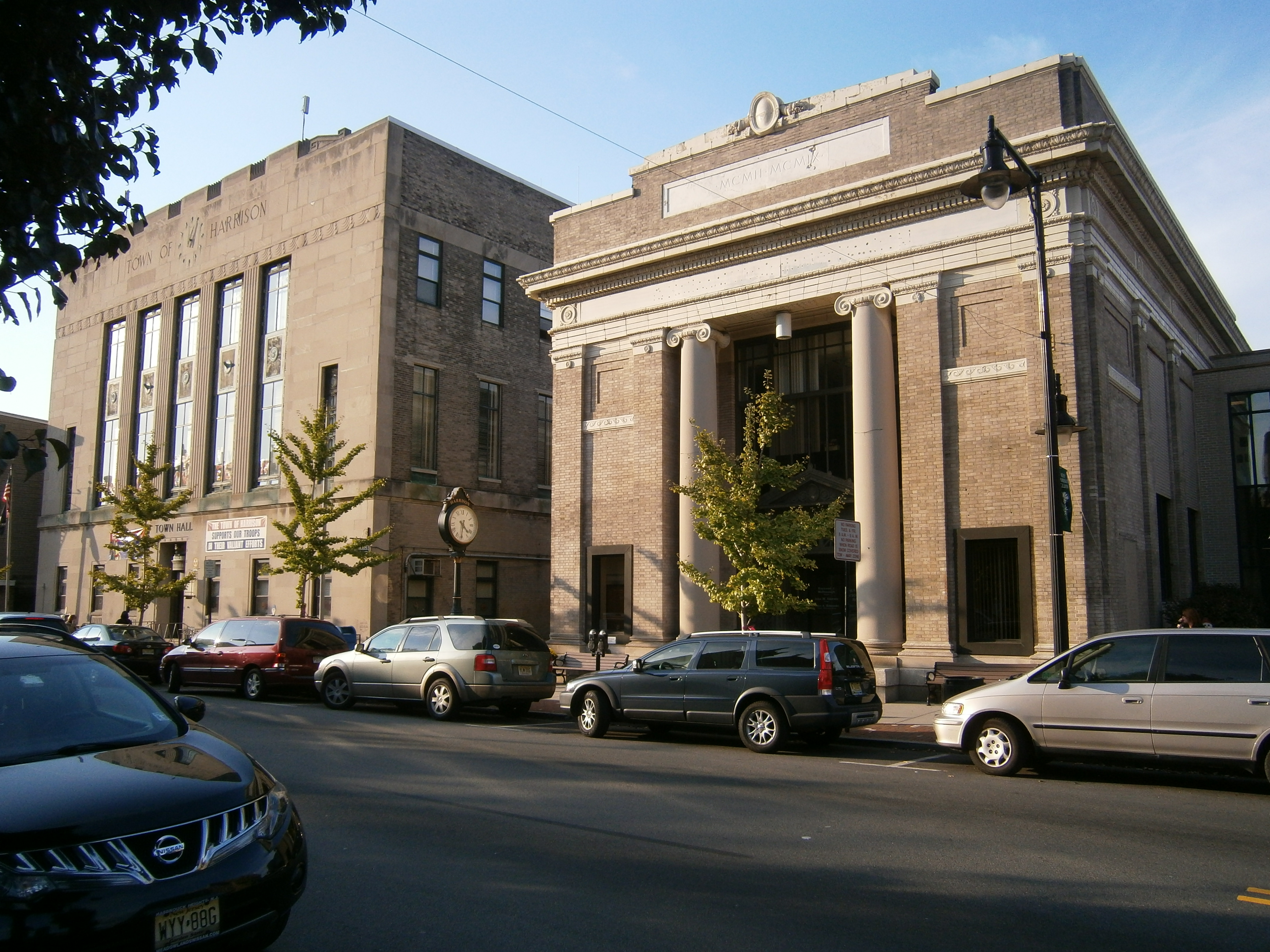 Kearny, New Jersey municipal gov't building